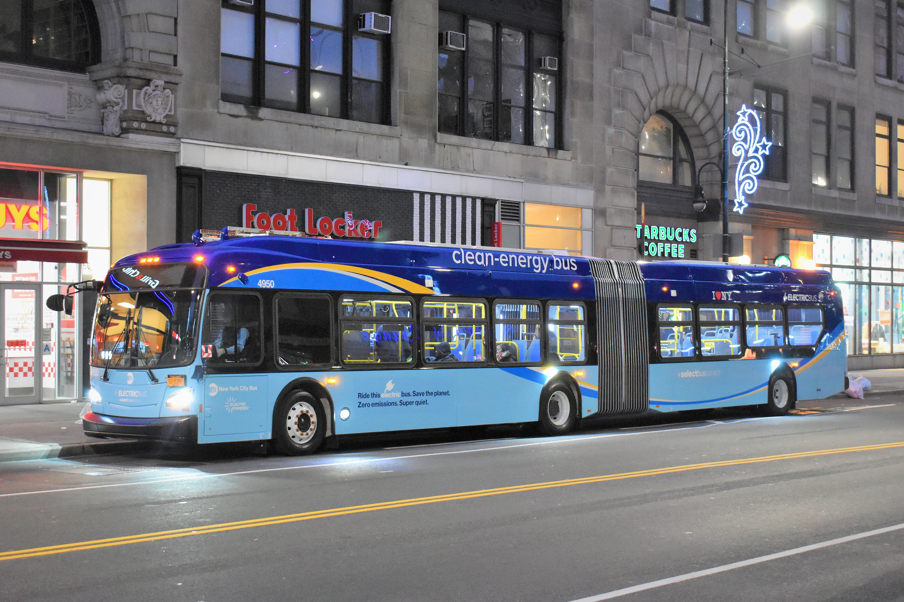 On West 14 Street at 6 Avenue, just before dawn, an M14 Select Bus Service articulated bus, that is an all-electric bus (New Flyer Xcelsior XE60 articulated) is about to depart for the East Side of Manhattan.